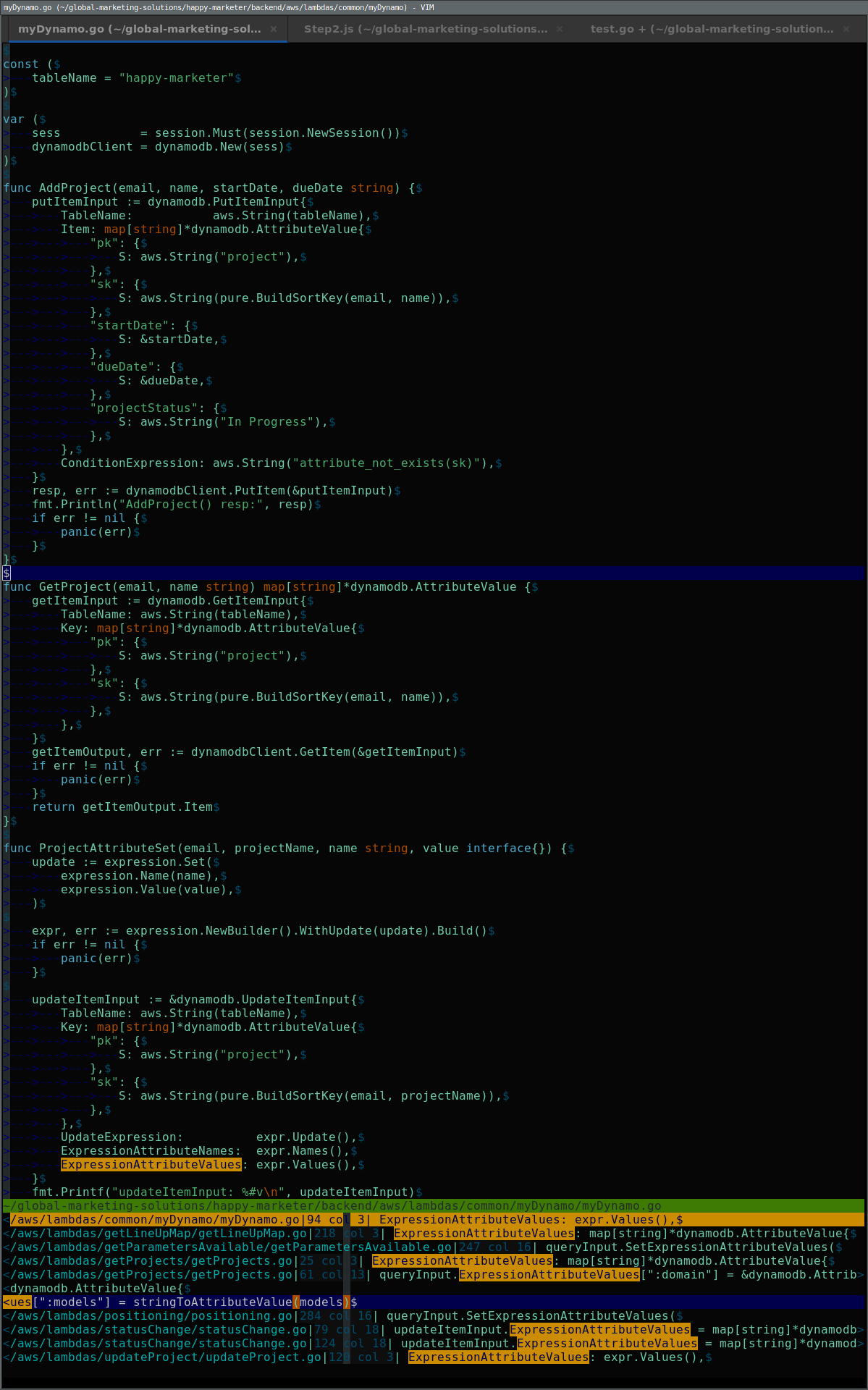 Vim 8.2: search inside Vim across files on disk, without plugins.